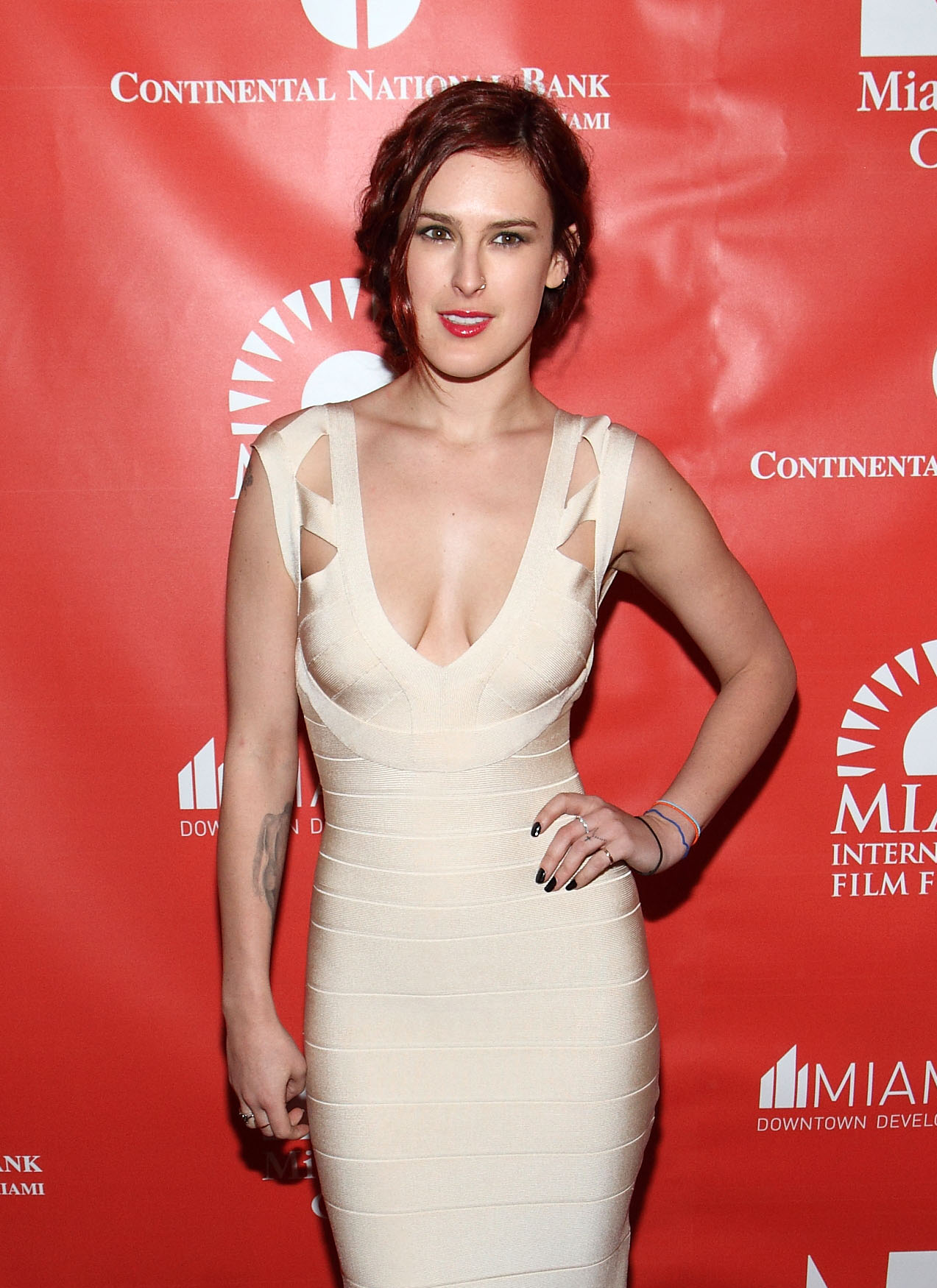 Actress Rumer Willis at the 2012 Miami International Film Festival presentation of "The Diary of Preston Plummer" at the Olympia Theater at the Gusman Center for the Performing Arts